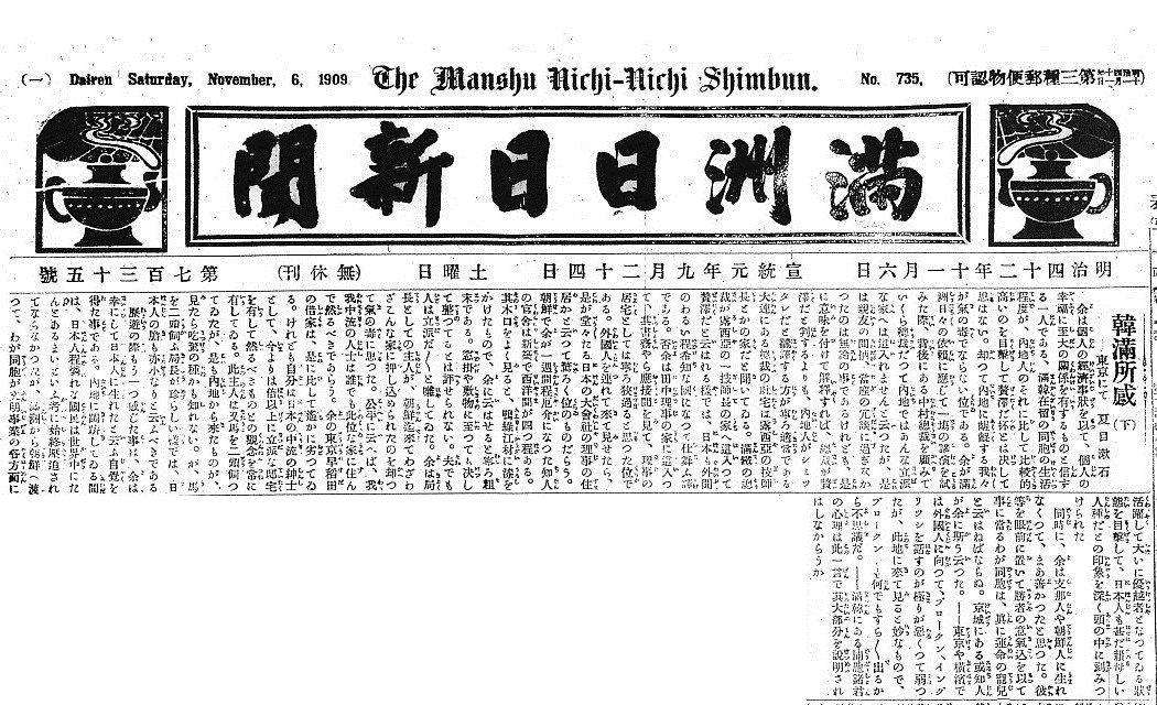 Manshu Nichi-Nichi Shimbun newspaper clipping (6 November 1909 issue)